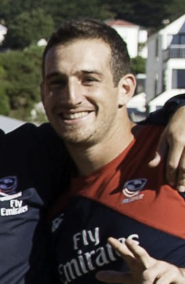 On Monday, February 3rd the public had the opportunity to meet the USA Rugby Sevens team ahead of the Wellington Sevens Rugby Tournament. There was free food, player autograph signings and fun rugby drills.